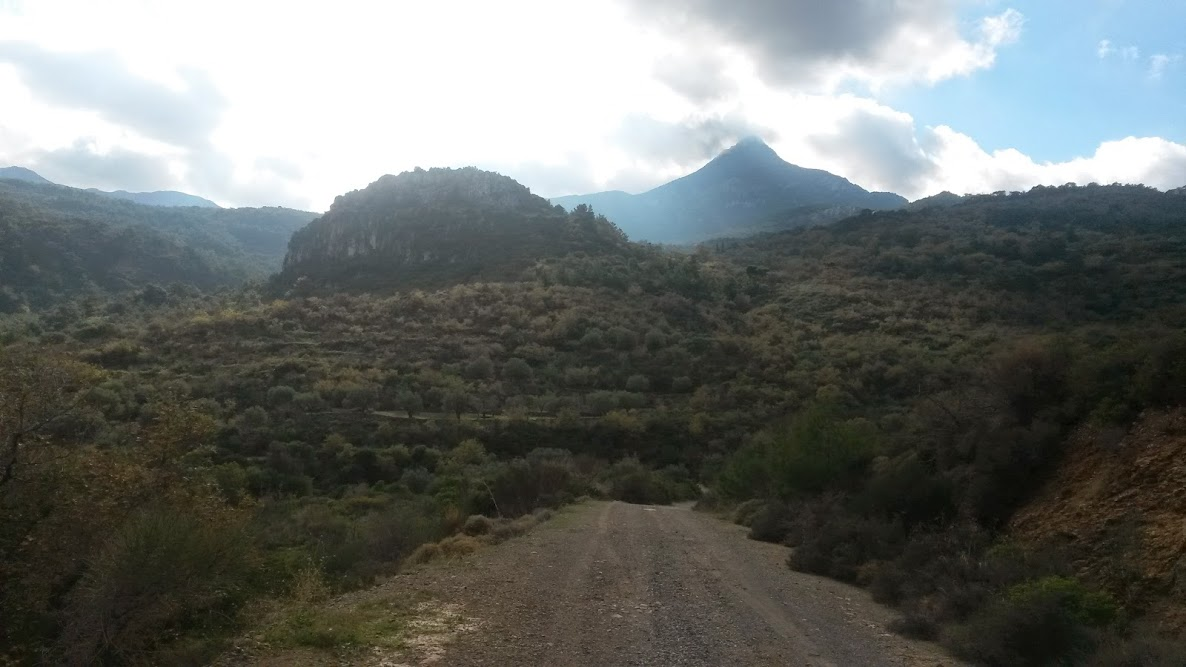 This is a photography of Natura 2000 protected area with ID GR4130001